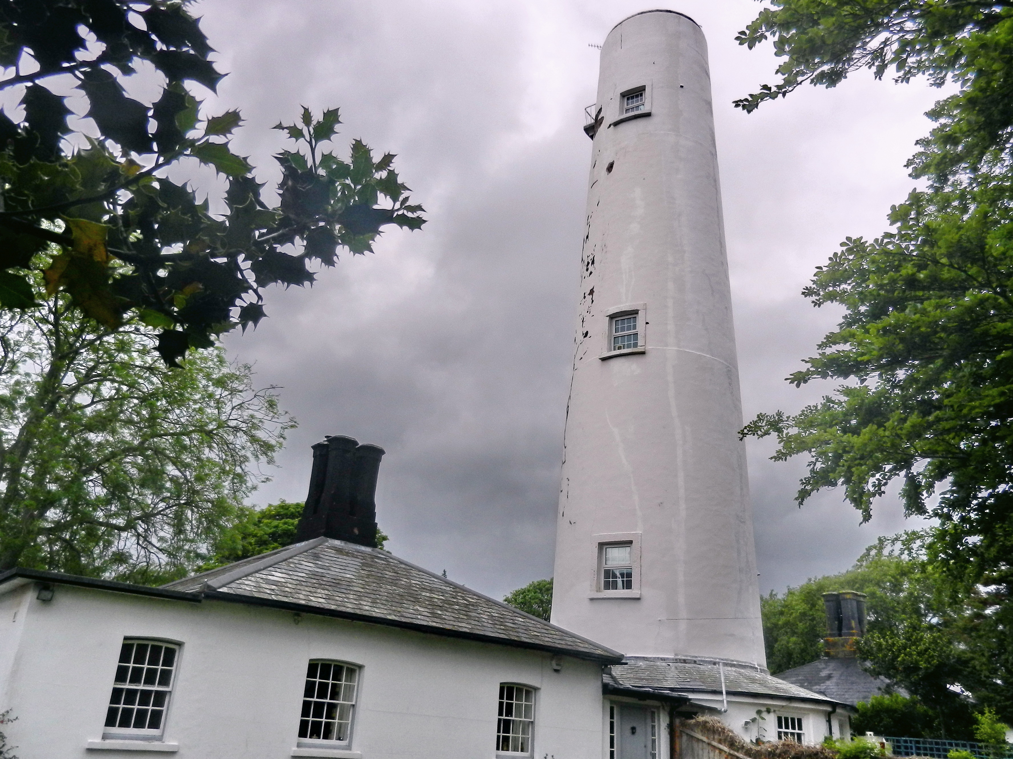 Burnham on Sea